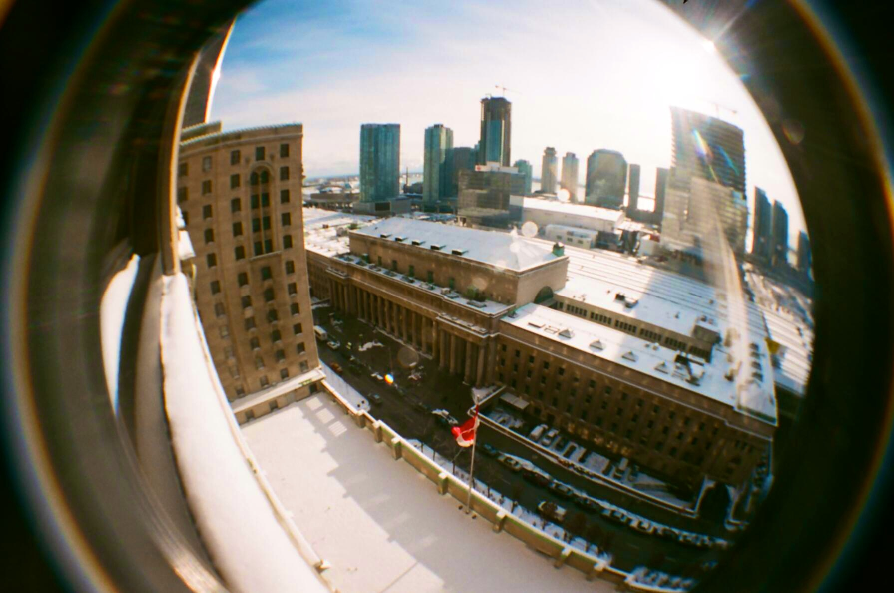 Union Station Toronto